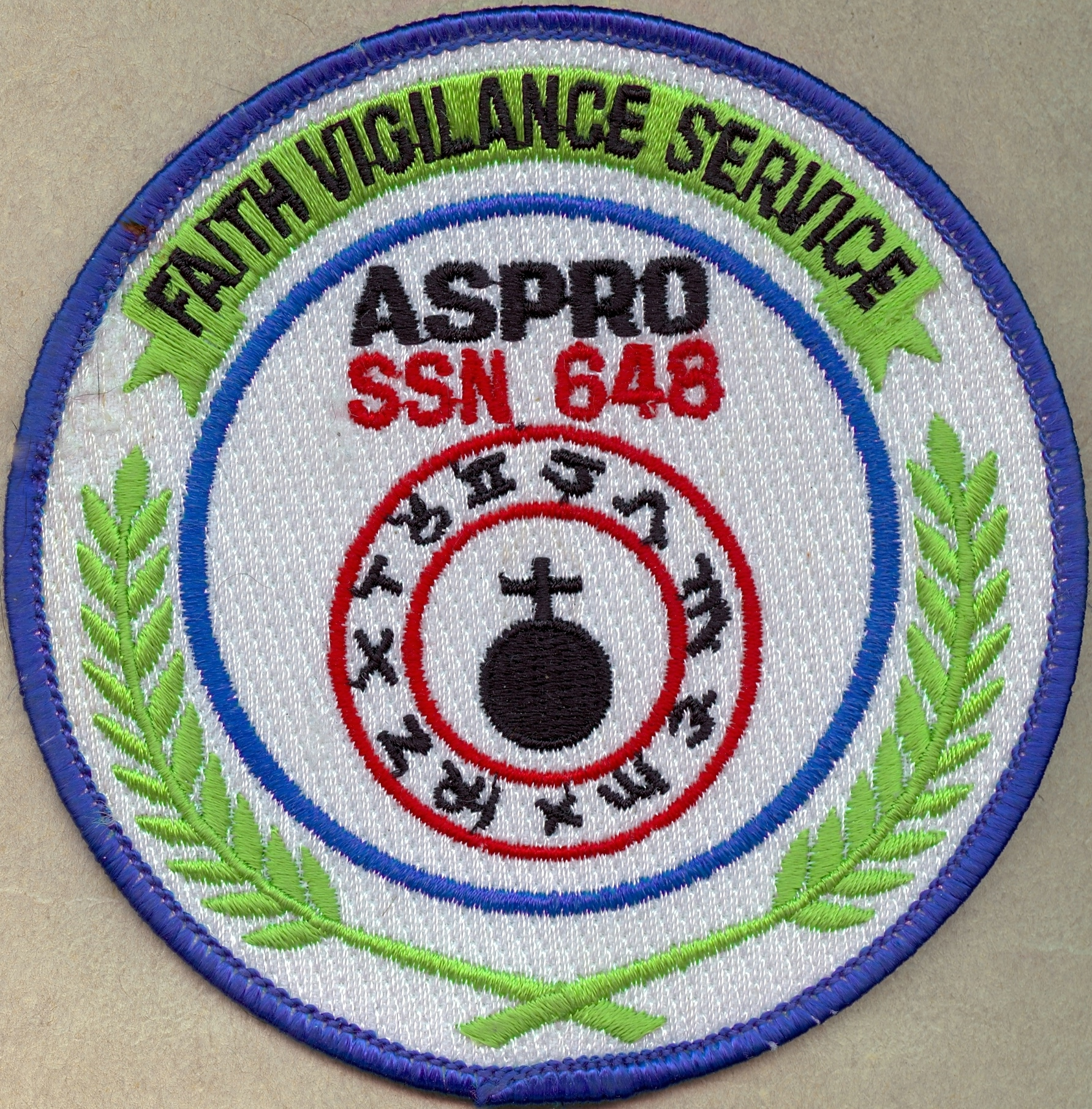 This is my unit patch from the USS Aspro (SSN-648) while serving aboard her in 1993.